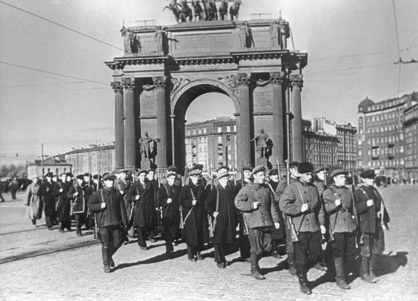 “Workers at Kirovsky Plant walking to front line”. Workers at Kirovsky Plant walking to the front line. The Besieged Leningrad (now St. Petersburg). The Great Patriotic War of 1941-1945.